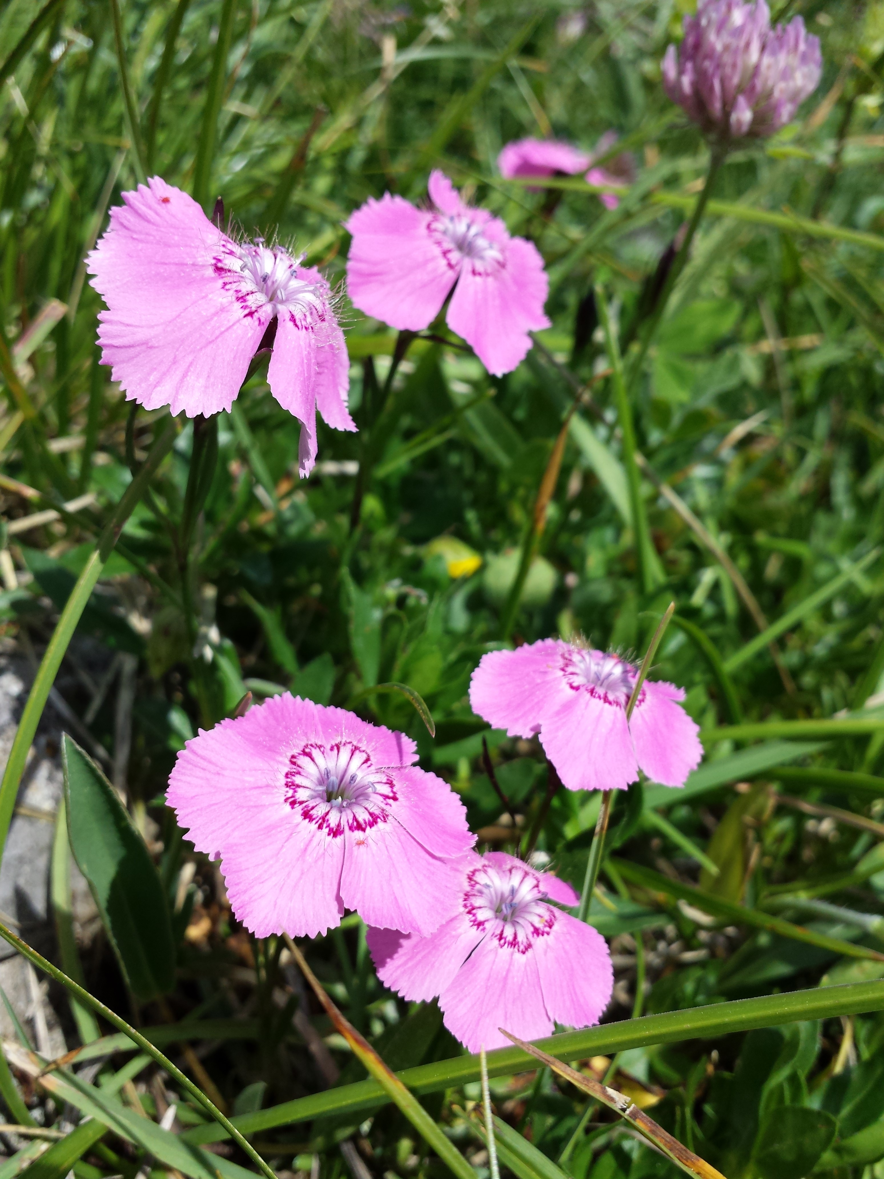 Habitus Taxonym: Dianthus alpinus ss Fischer et al. EfÖLS 2008 ISBN 978-3-85474-187-9 Location: Ötscher, district Scheibbs, Lower Austria - ca. 1500 m a.s.l. Habitat: alpine meadows